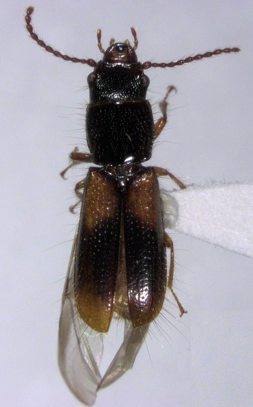 adult Chaetosoma scaritides